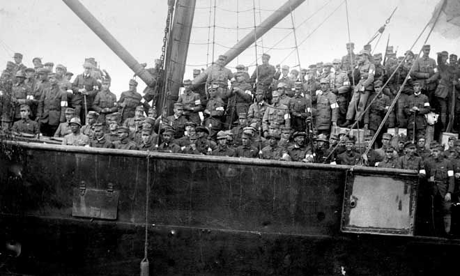 The Swedish brigade returns home after the civil war in Finland 1918.